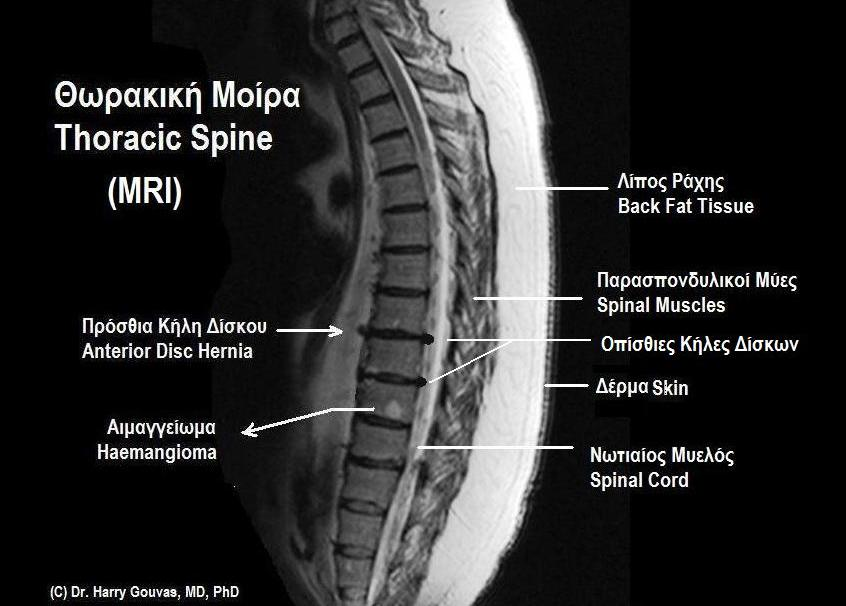 Thoracic spine